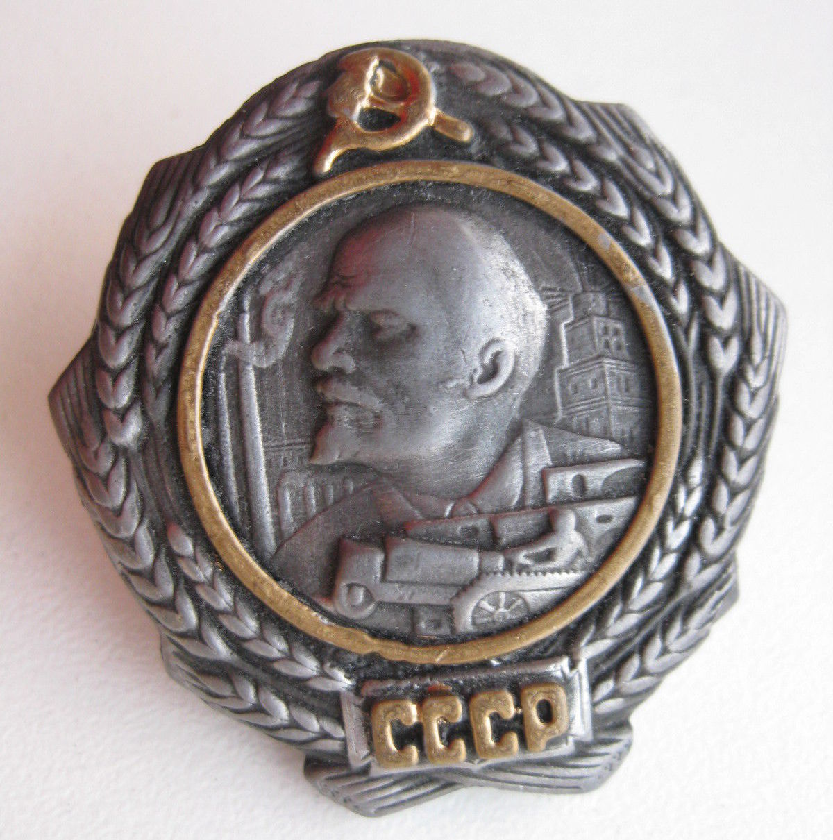 Replica of the type 1 order of lenin. Special thanks to narvarestorer for releasing photos of it.